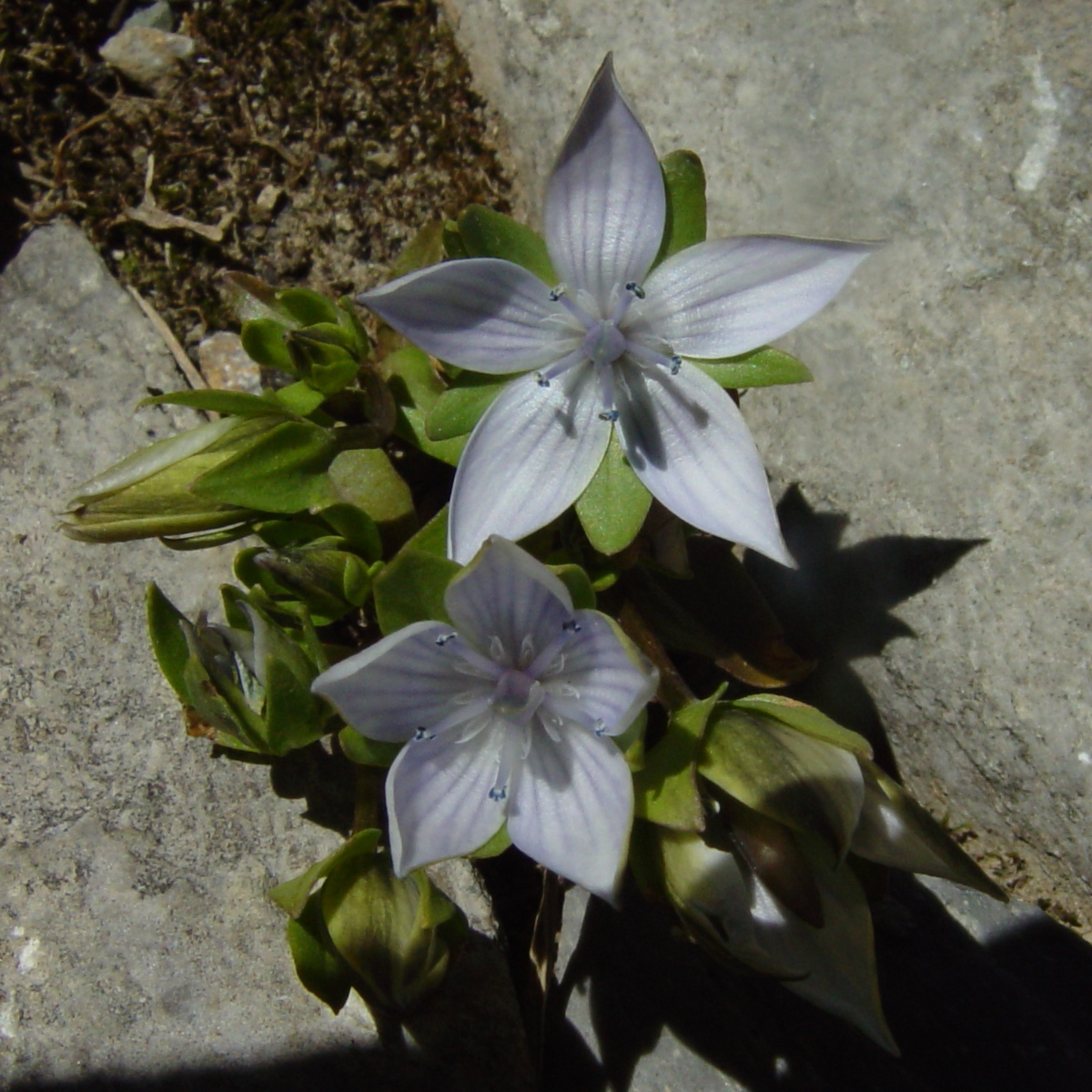 Lomatogonium carinthiacum in Mount Kita, Akaishi Mountains, Japan.